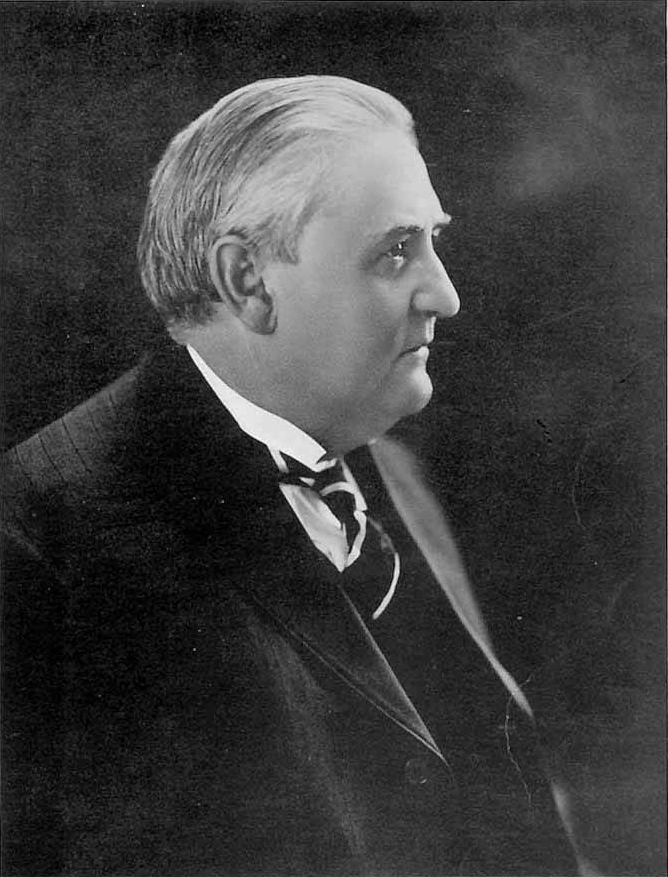 Photo of Louis Folwell Hart, Governor of Washington from 1919–1925.